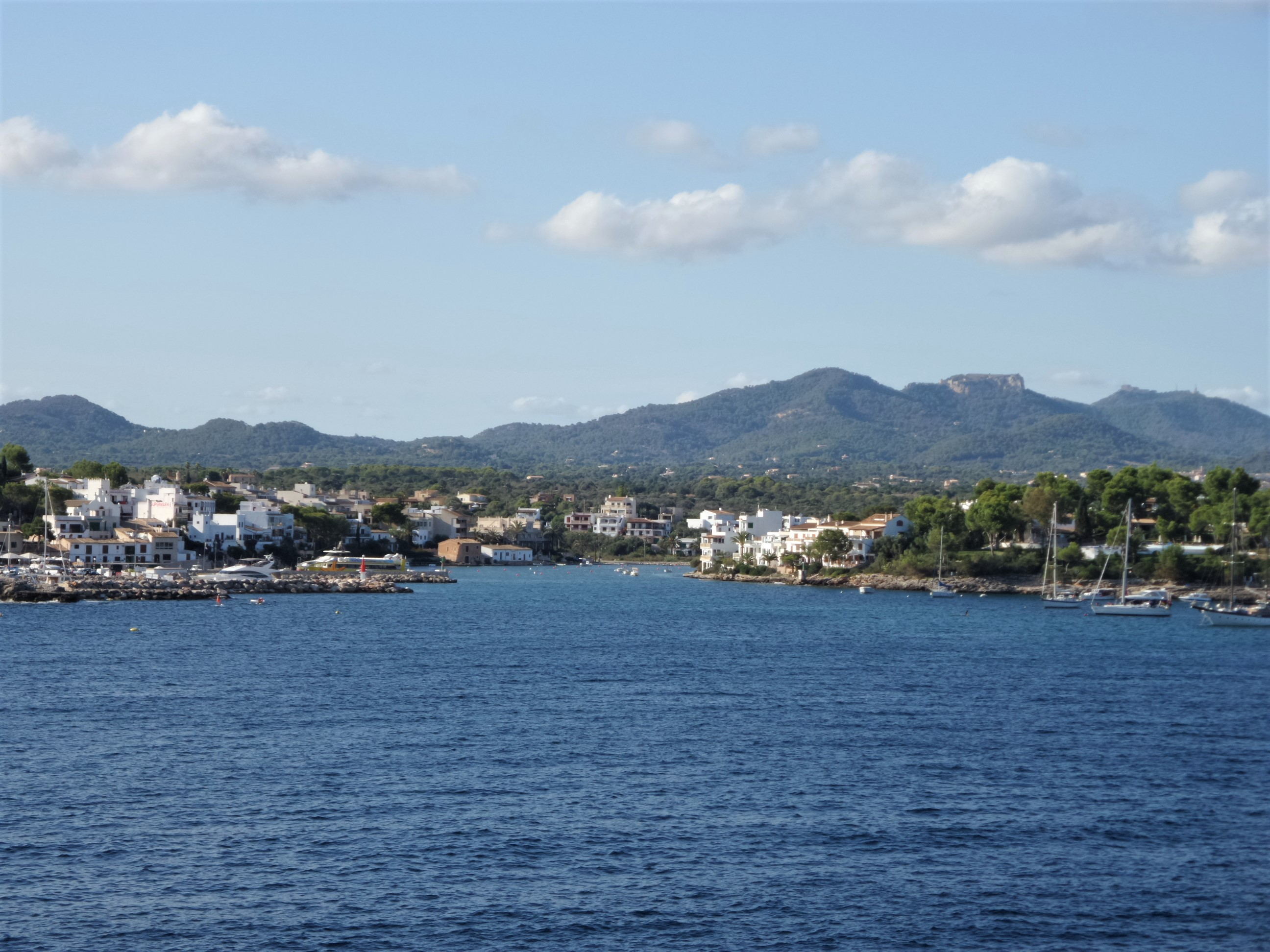 Portopetro Bay; Background: Puig de sa Comuna Grossa, Castell de Santueri und Santuari de Sant Salvador